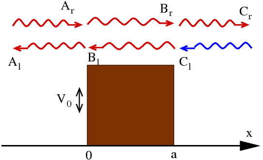 created by Bamse 05:12, 31 July 2006 (UTC)